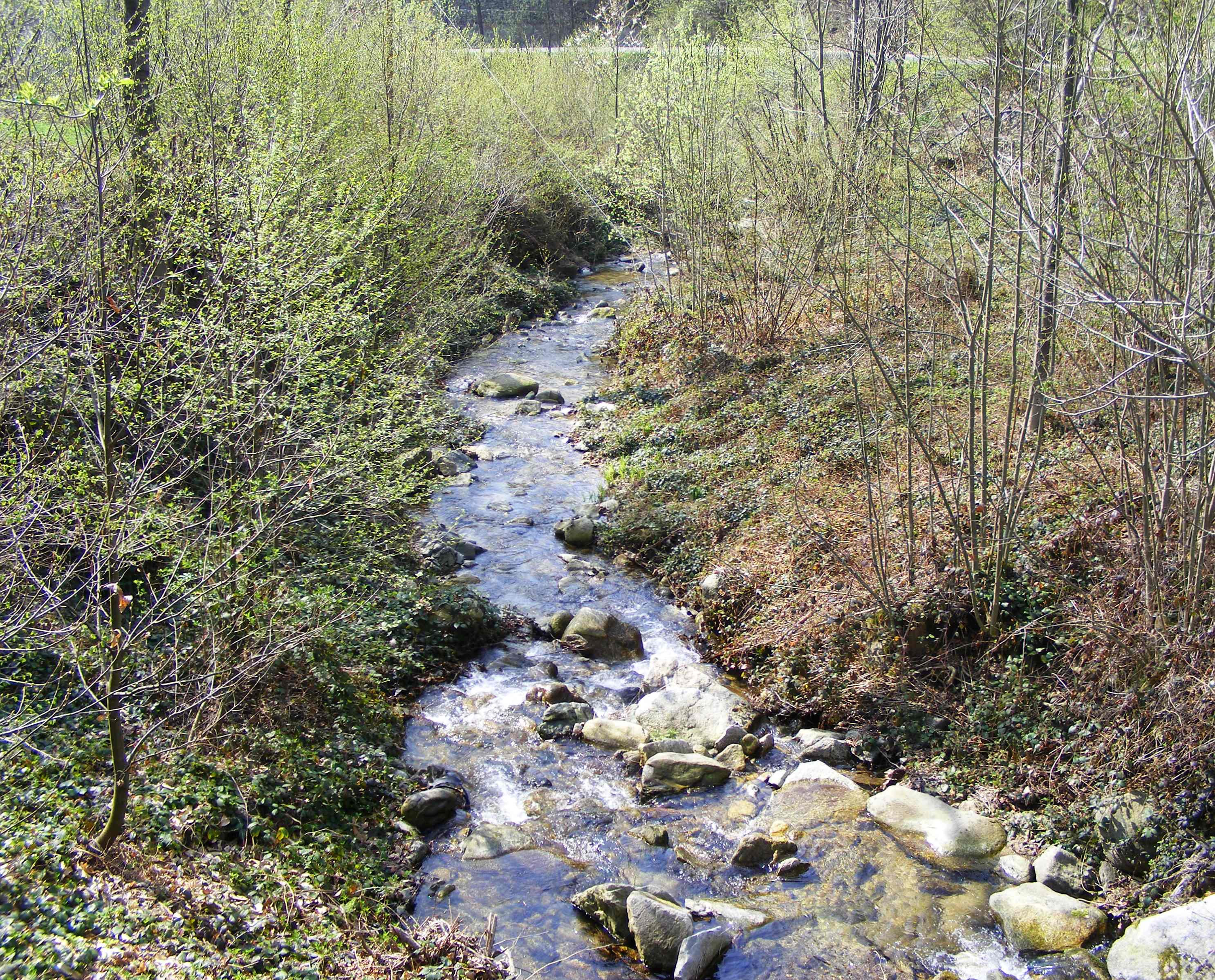 Lemina creek near Talucco (Pinerolo, TO, Italy)